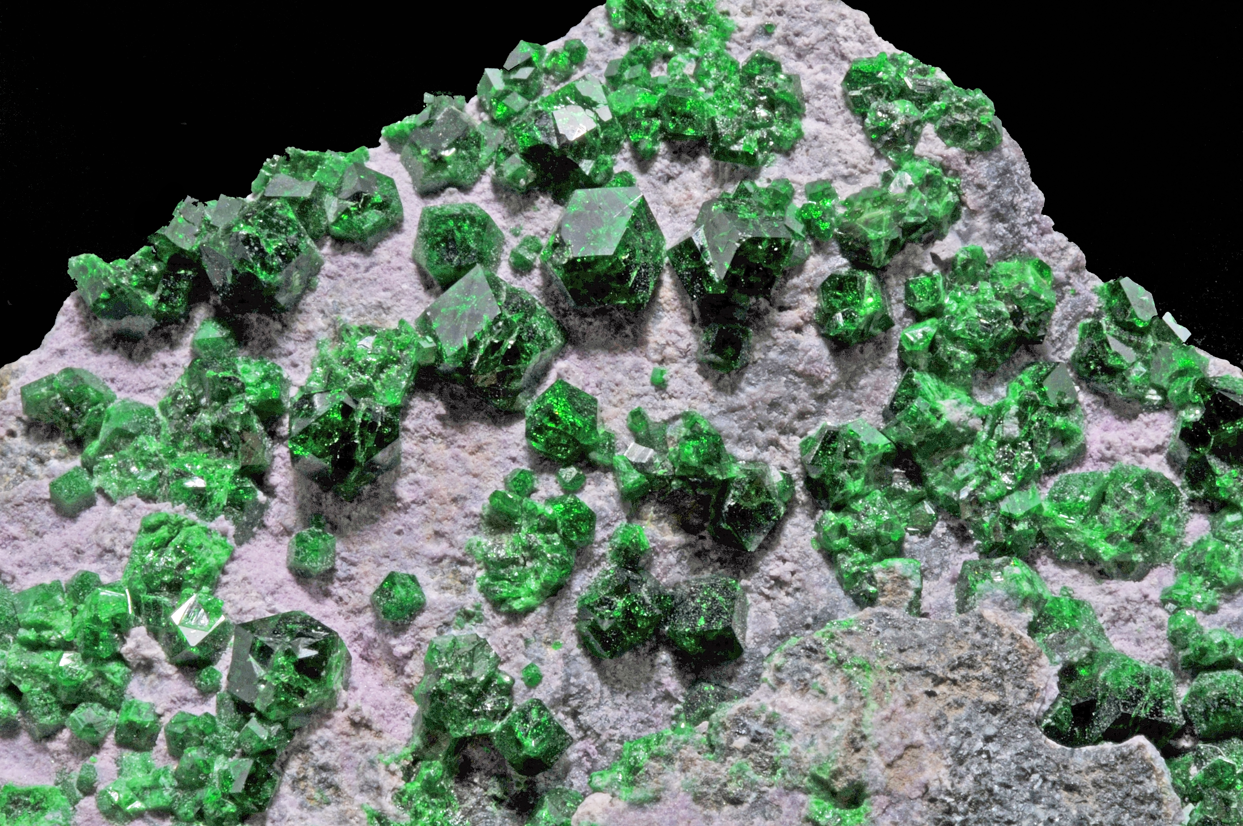 crystals of garnet var. uvarovite : Saranovskii Mine (Saranovskoe), Saranovskaya (Sarany) Village, Gornoazavodskii area, Permskaya Oblast’, Middle Urals, Urals Region, Russia